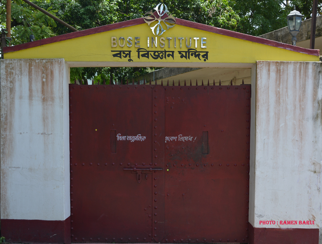 MAIN ENTRANCE